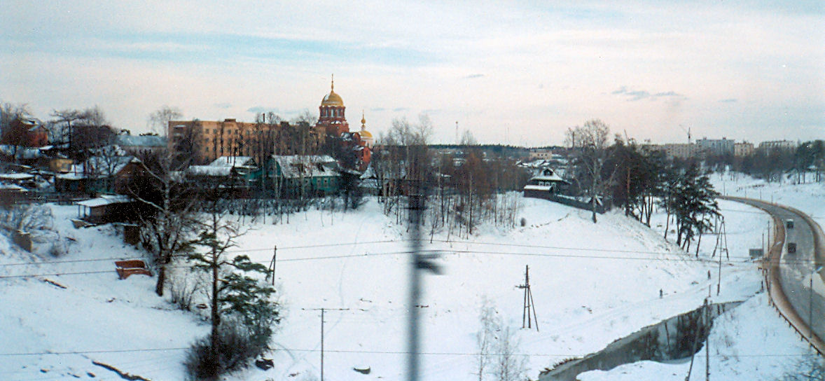 Khotkovo town, south from Sergiev Posad (former Zagorsk; title is incorrect). Cathedral of Saint Nicholas of the Pokrovsky Hotkov Convent, 1899-1904, architect Alexander Latkov.